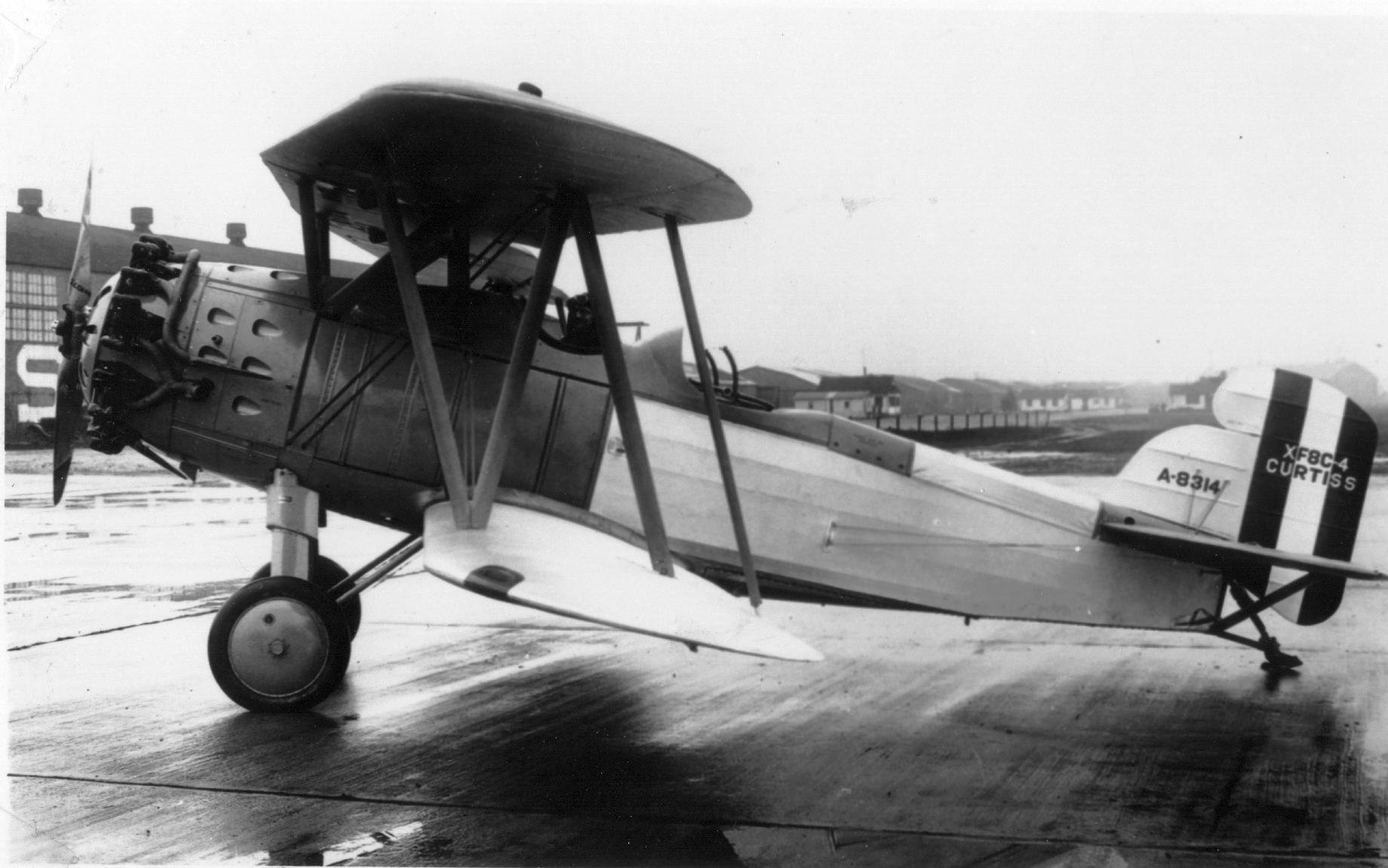 Curtiss XF8C-4 "Helldriver" prototype fighter-scout.